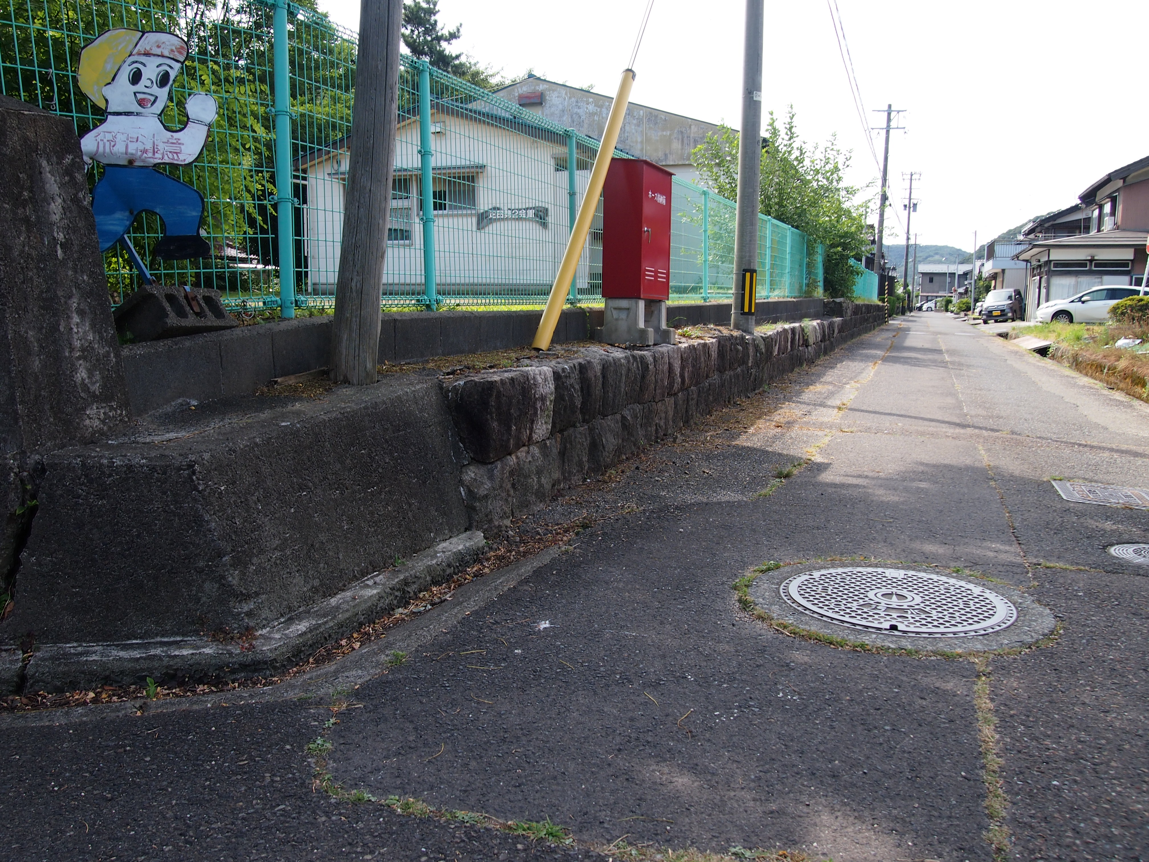 Remains of Hikida station platform.jpg